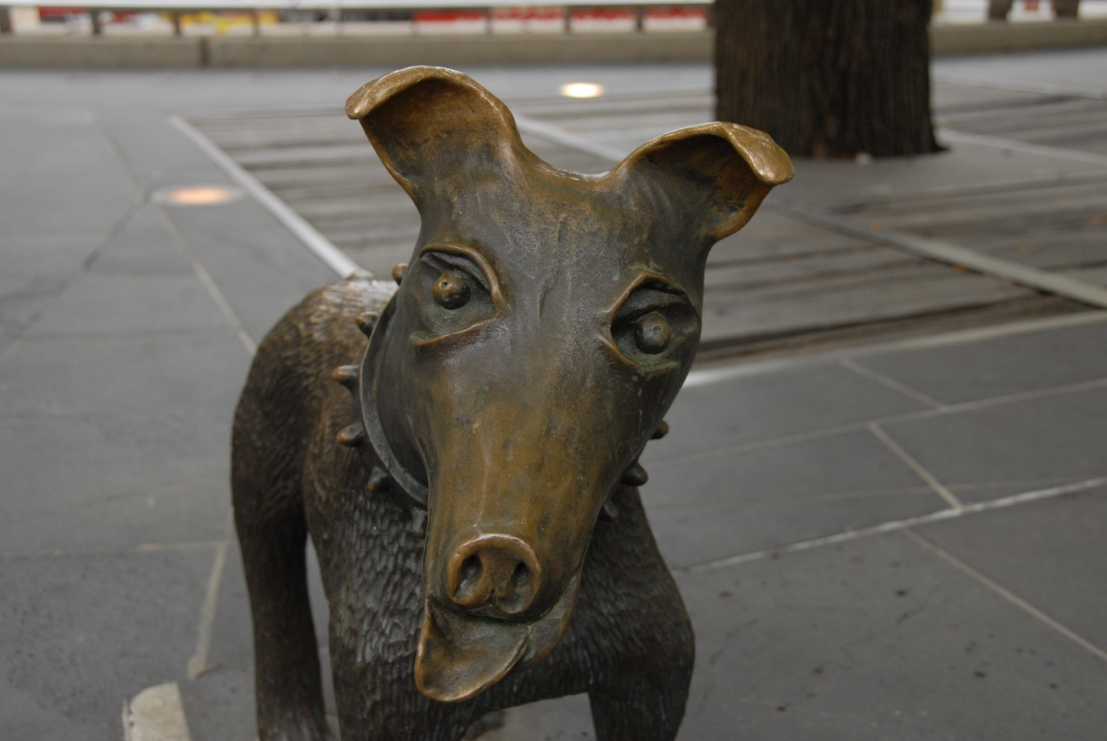 Photograph of bronze statue Larry La Trobe created by artist Pamela Irving in 1992 and recast in 1996 in Melbourne/Australia.